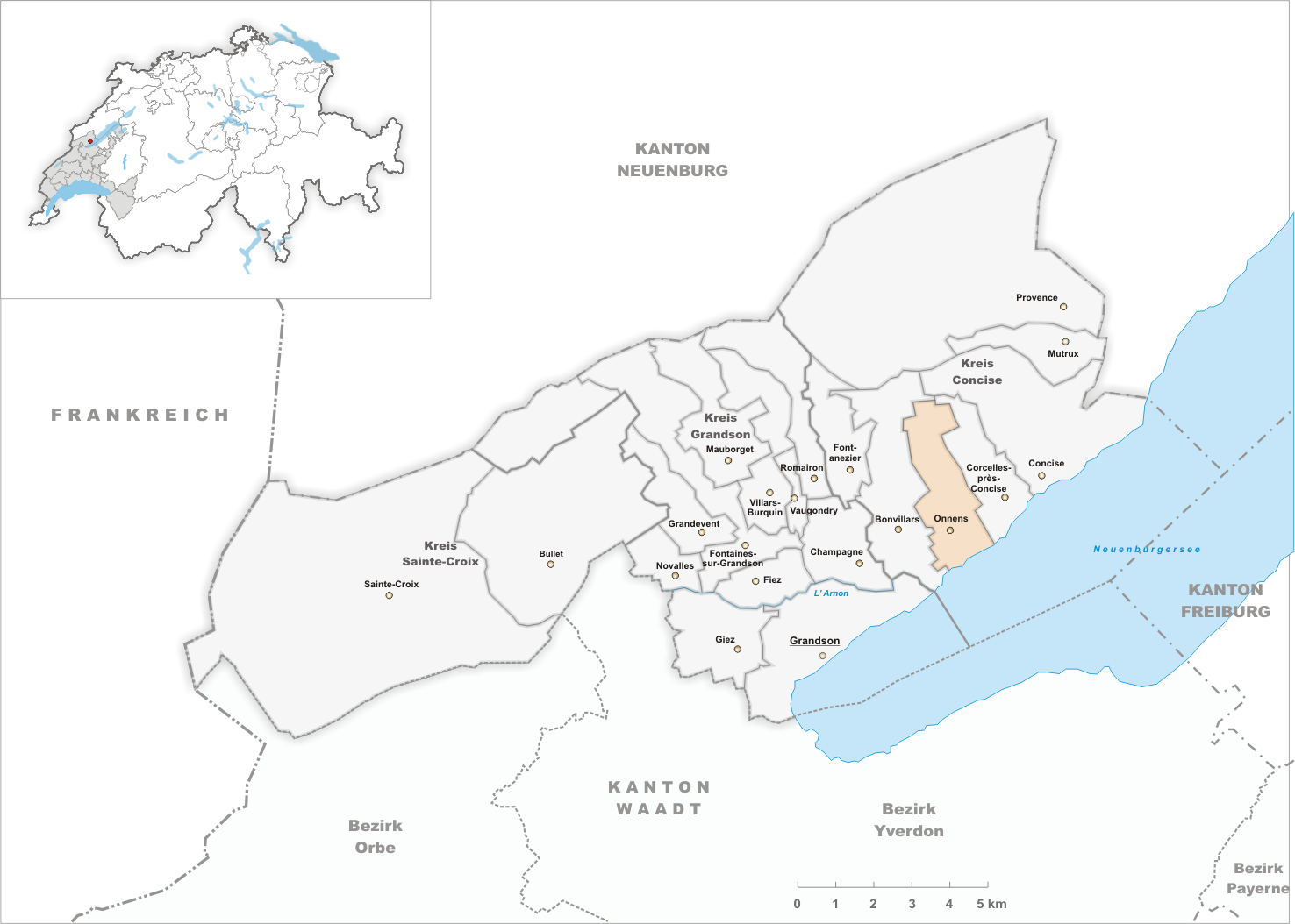 Municipality Onnens